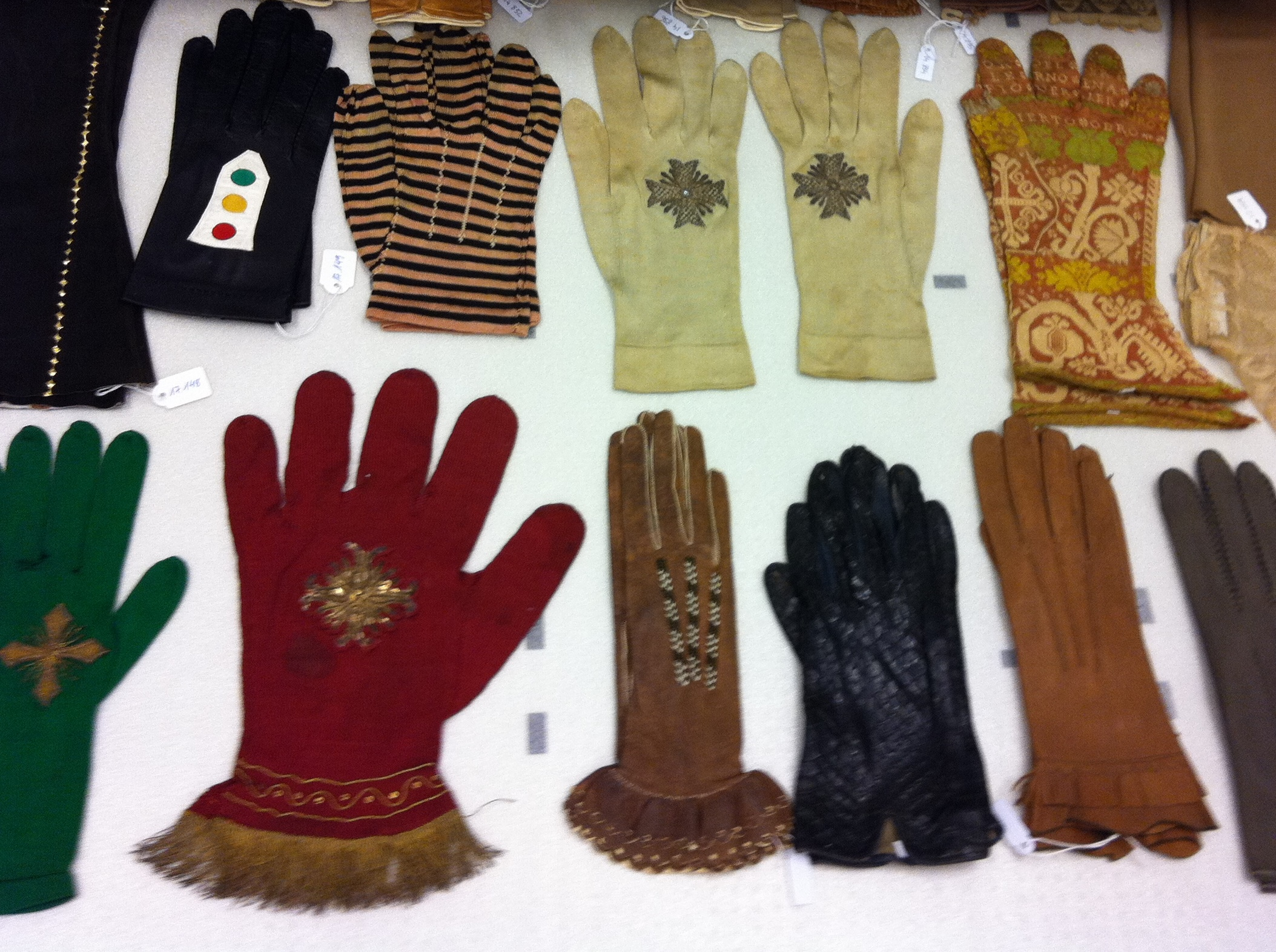 Documentation Center and Textile Museum of Terrassa